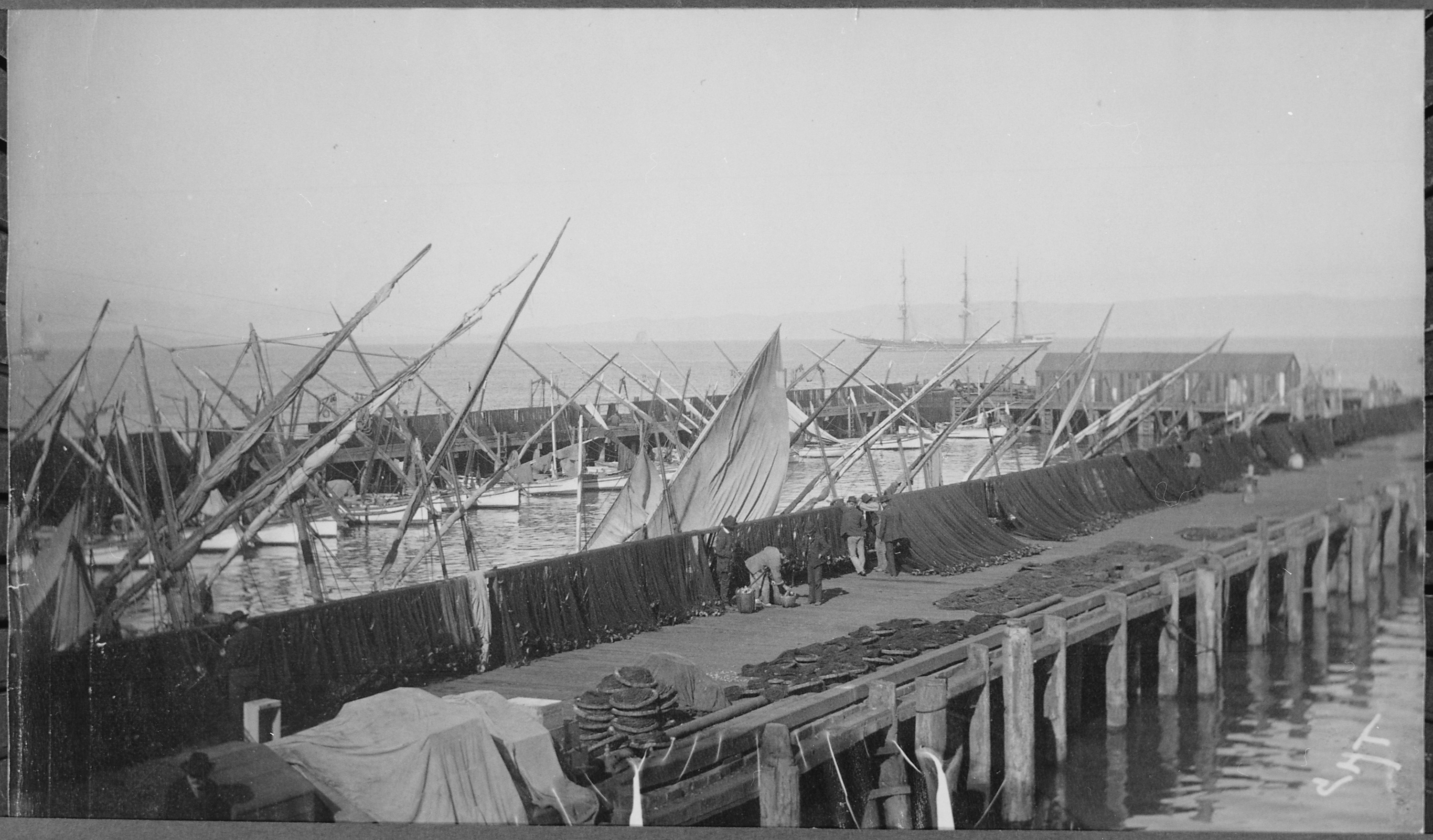 Scope and content: Original caption: Italian fisheries - San Francisco Bay. The photograph was taken by Charles H. Townsend.